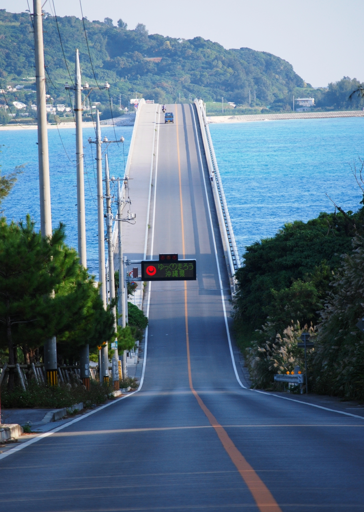 View of Kouri Bridge from a road in Yagaji Island, Nago, Okinawa, Japan